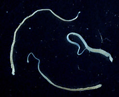 Three adult Hymenolepis nana tapeworms. Each tapeworm (length: 15 to 40 mm) has a small, rounded scolex at the anterior end, and proglottids can be distinguished at the posterior, wider end.